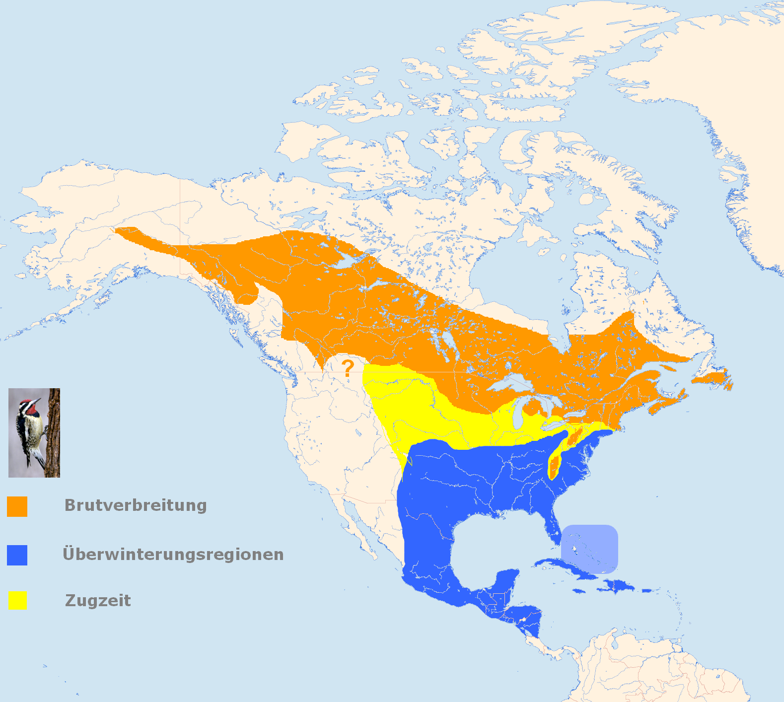 Range Map of Yellow-bellied Sapsucker